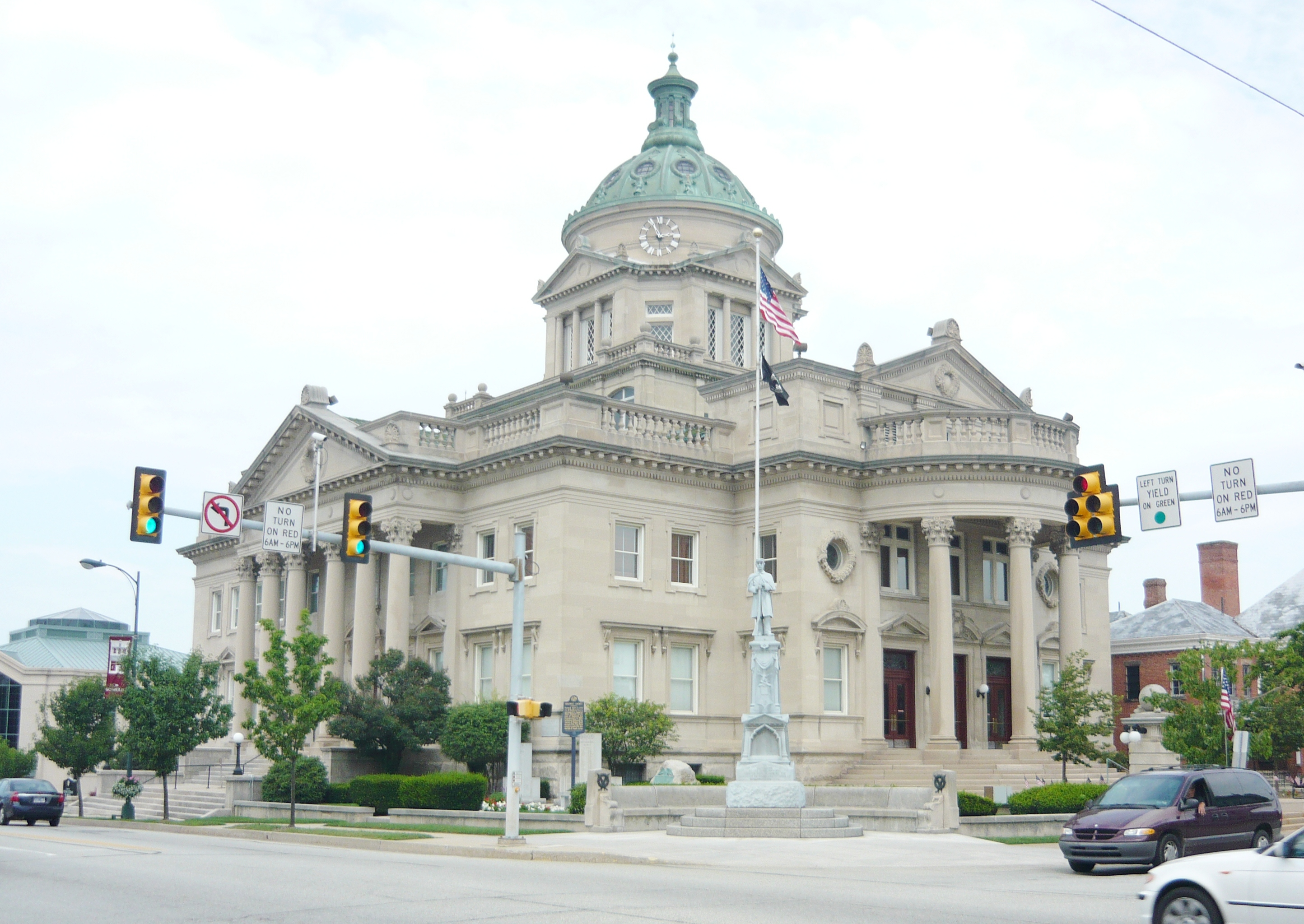 Somerset County Courthouse, 111 East Union Street (at North Center Street), Somerset, Somerset County, Pennsylvania. Built 1904-1906. Architect: J.C. Fulton. Builders: Caldwell and Drake.